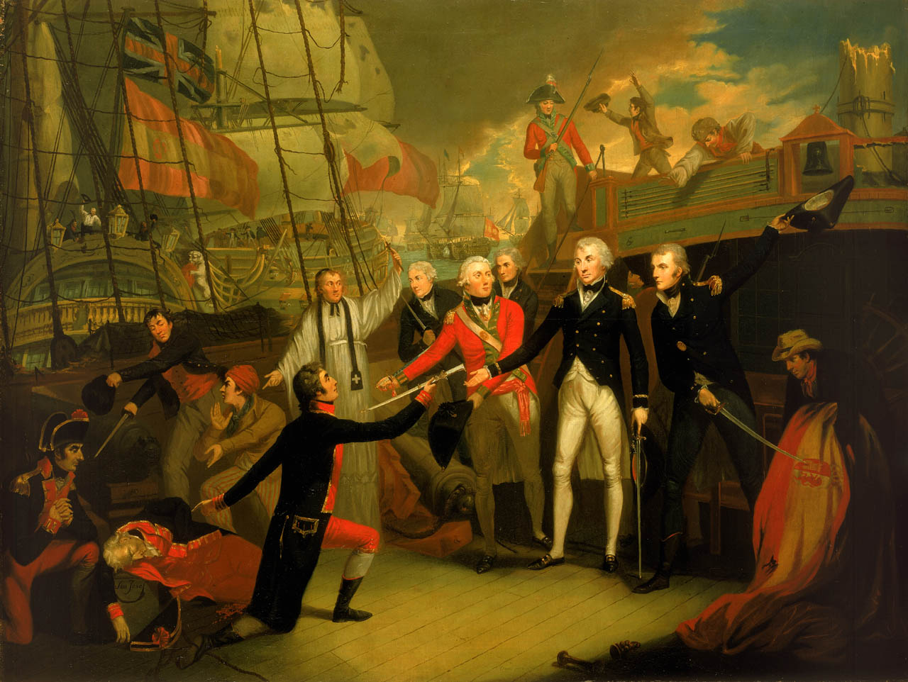 Surrender of the San Josef in the Battle of Cape St Vincent (1797).